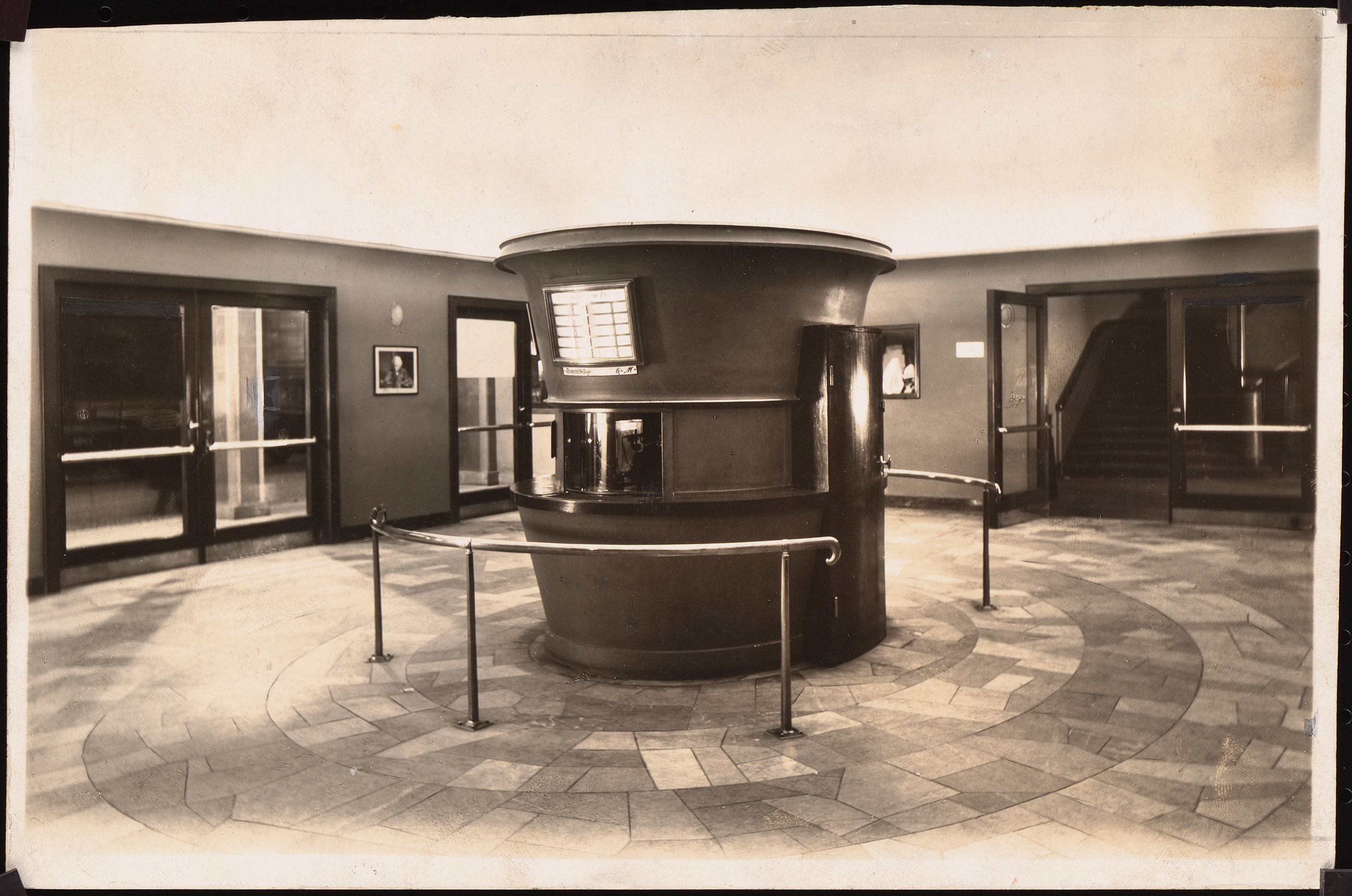 Hans Poelzig (1869-1936) Capitol-Lichtspiele am Zoo, Berlin Inhalt: Kassenhalle Projektzeit: 1924-1926 Gattung: Foto Material/Technik: Foto auf Papier Maße: 15,8 x 23,8 cm Ort: Berlin Straße: Breitscheidplatz (historisch: Auguste-Viktoria-Platz) Inventarnummer: F 1668 URL